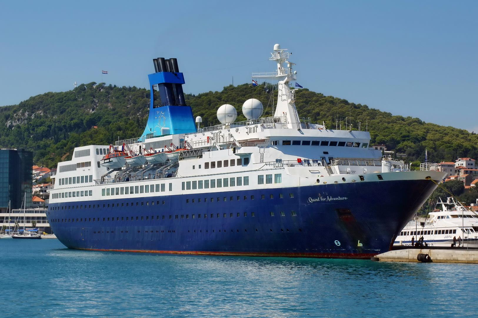 Quest for Adventure, cruise ship, built 1981, IMO 8000214, as seen in Split, Croatia, on Sep 6th, 2013; CEST 13:22:01; Position: N 43°30'16", E 16°26'21"; Heading 89°